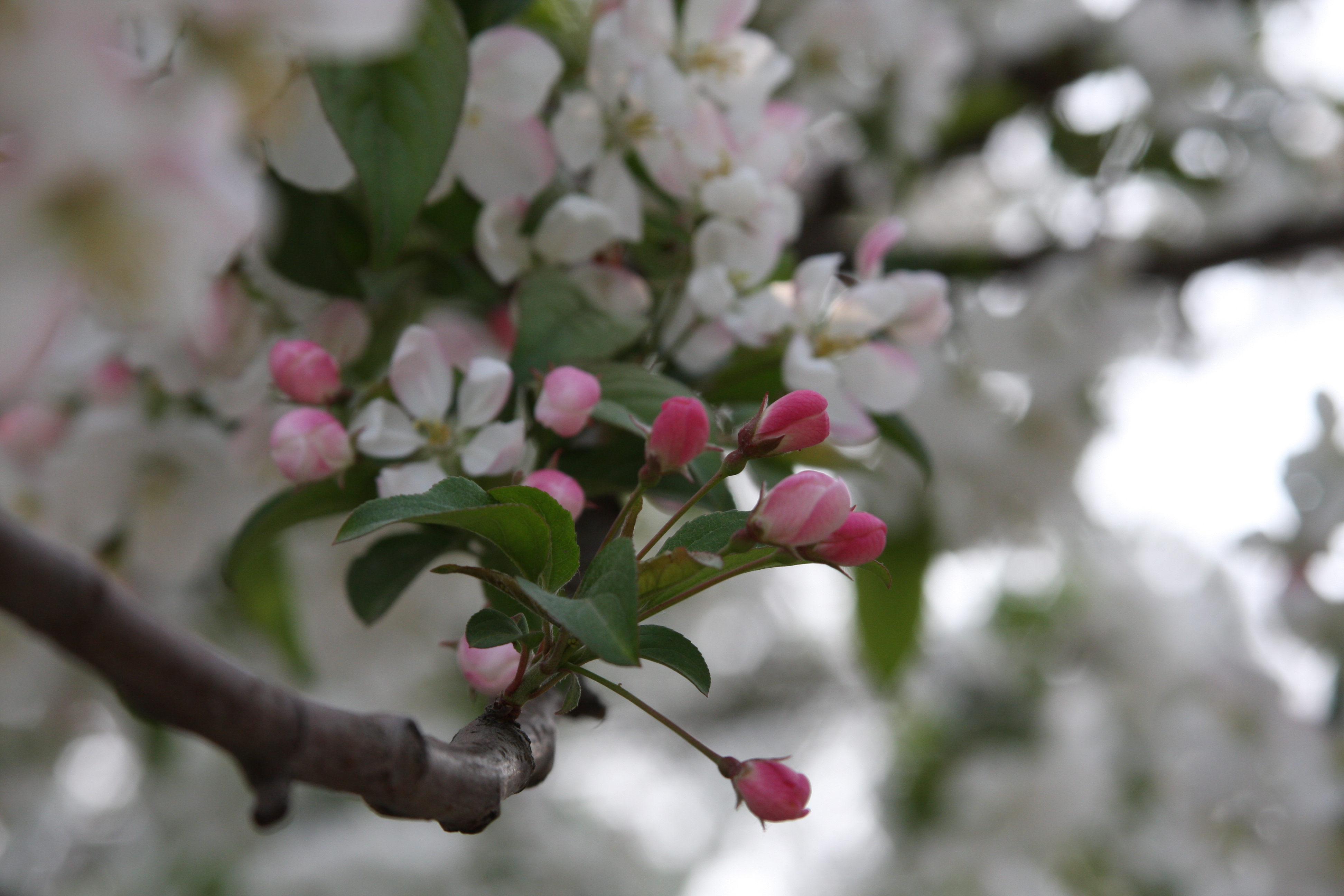 Cherry blossoms at Yuyuantan park.